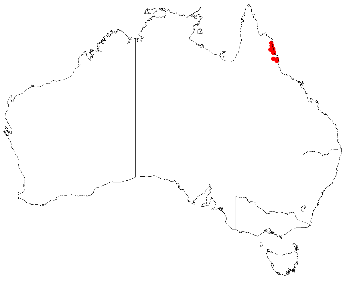 Australian distribution of Amyema quaternifolia based on download from Australasian Virtual Herbarium May 9, 2018